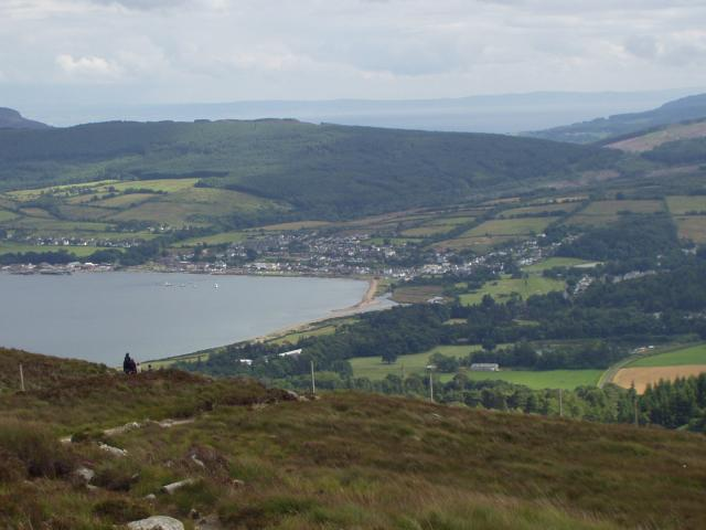 Brodick Bay. From the 'tourist trail' down from Goatfell.